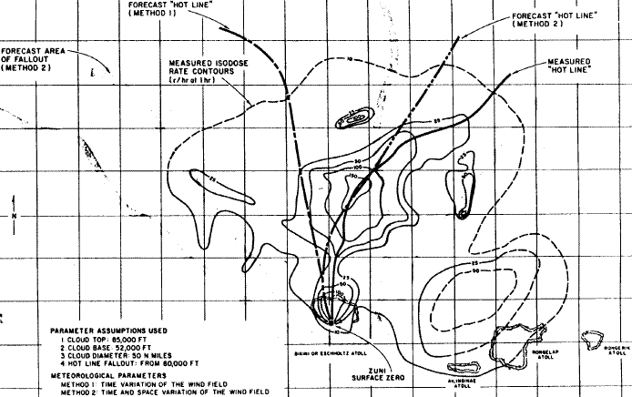 Fallout pattern from the 3.53 Mt total yield (15% fission yield) Zuni nuclear test, a coral island surface burst at Bikini Atoll, 1956. The prediction of fallout shown for comparison is from Edward A. Schuert's U.S. Naval Radiological Defense Lab. 1957 report USNRDL TR-139, A Fallout Forecasting Technique with Results Obtained at the Eniwetok Proving Grounds. Source: Philip D. LaRivere and Terry Triffet, Characterisation of Fallout, Operation Redwing, U.S. Department of Defense, Weapon Test report WT-1317 (1961), declassified online version at The measurements for the contours are in Roentgens per hour of gamma radiation, as extrapolated back to the standard reference time of 1 hour after detonation (before most of the fallout was actually deposited). The data have also been converted to land-equivalent dose rates, which at 2 days after burst were 535 times the measured levels from fallout dispersed in the water above the thermocline [1]